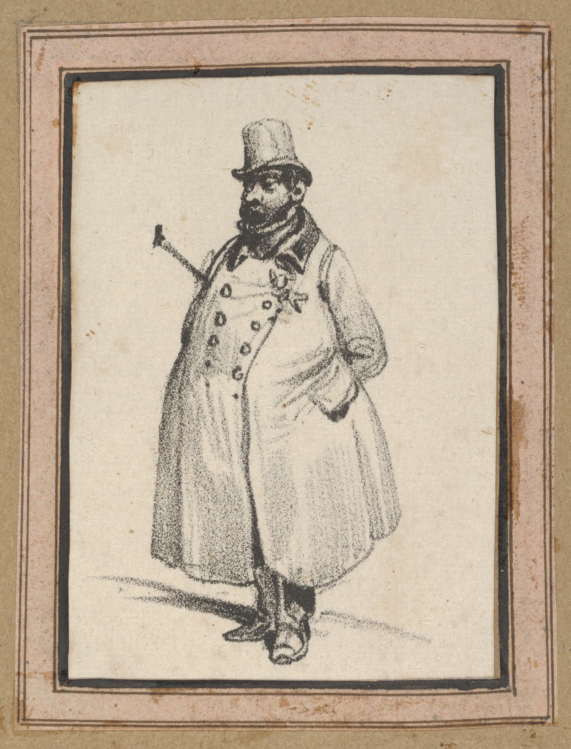 Print; Prints